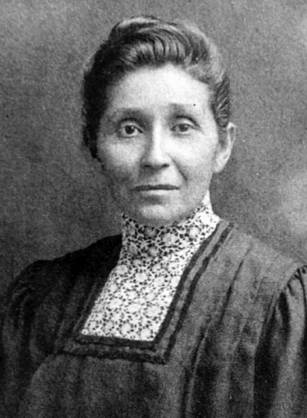 Dr. Susan La Flesche Picotte was the first American Indian woman in the United States to receive a medical degree.